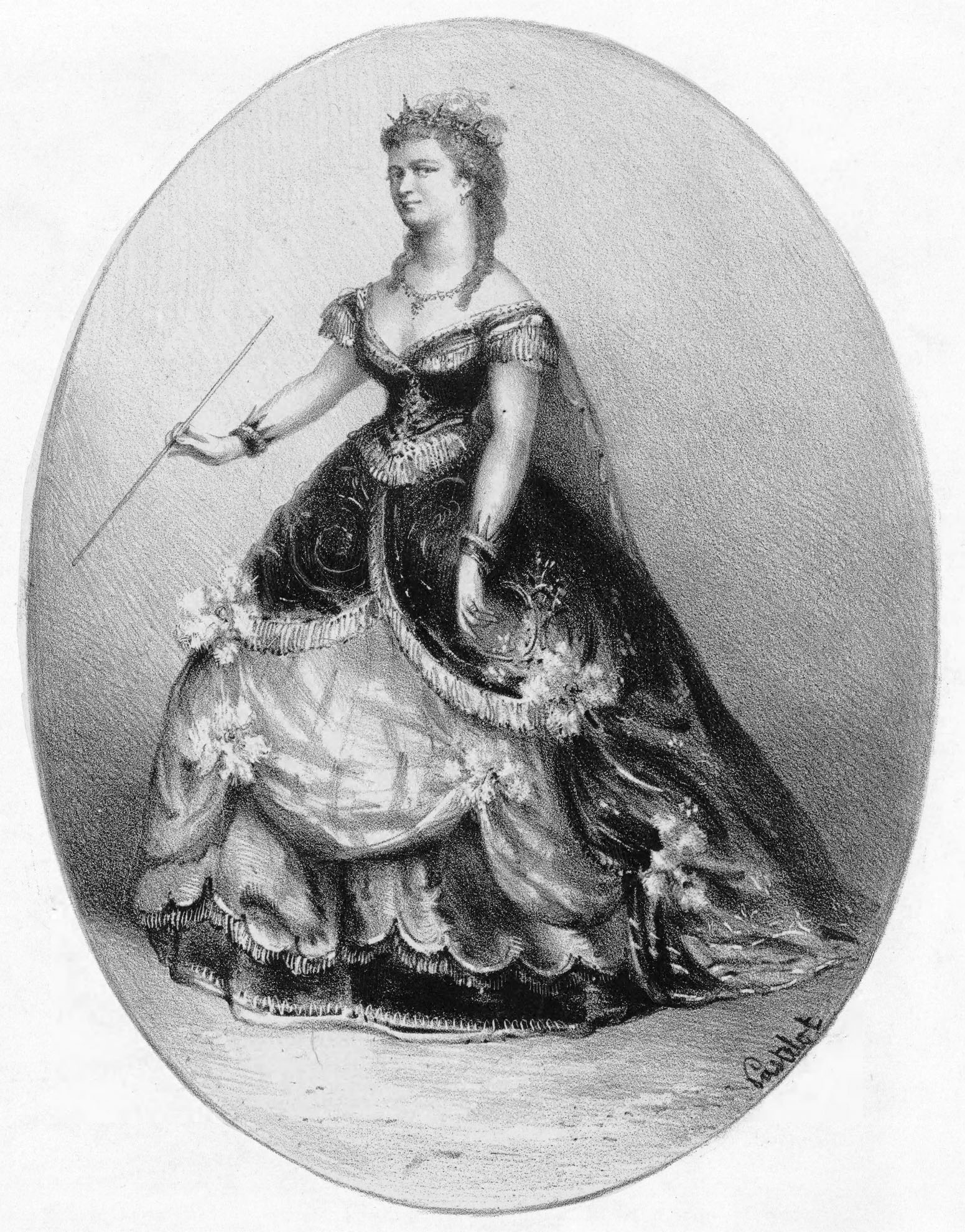 Marie Cabel as Philine in Ambroise Thomas' opera Mignon, a role she created on 17 November 1866 at the Opéra-Comique in Paris. (This version is cropped with enhanced contrast.)